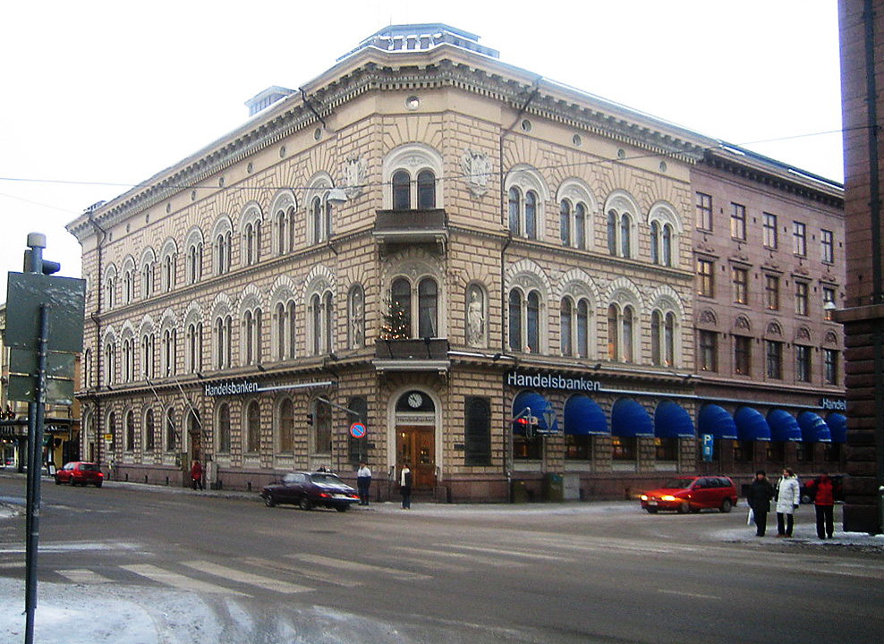 Commercial building Linnankatu 18, Turku, Finland. Completed in 1891, designed by architect Sebastian Gripenberg (1850-1925) as the headquartes of Turku Savings Bank. Extension (right) completed in 1912, architects Birger Brunila and Valter Jung. Three cement cast statues on the facade by Emil Wikström (1864-1942). The building was for a while a Handelsbanken branch too.